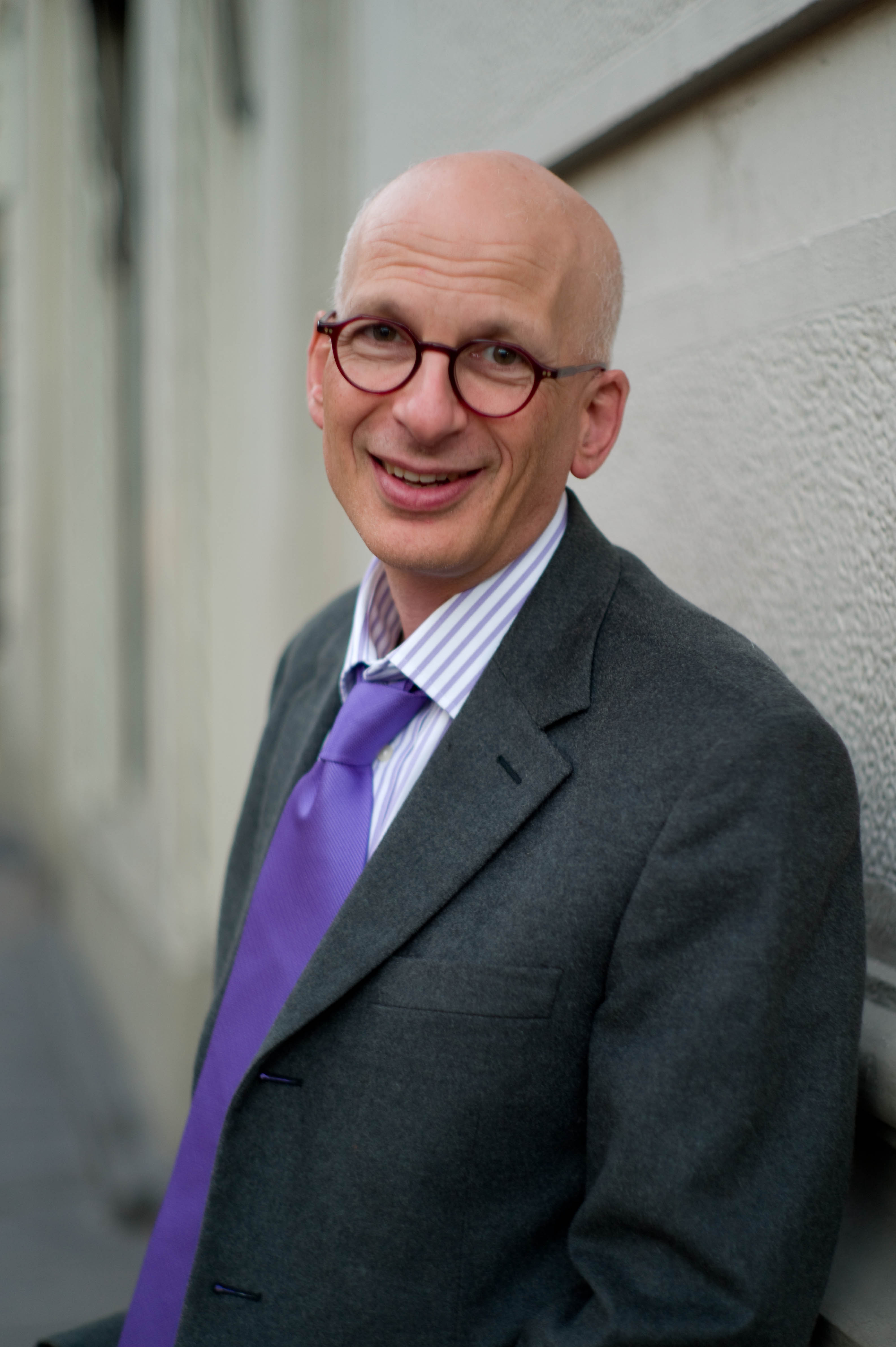 American entrepreneur, author and public speaker Seth Godin